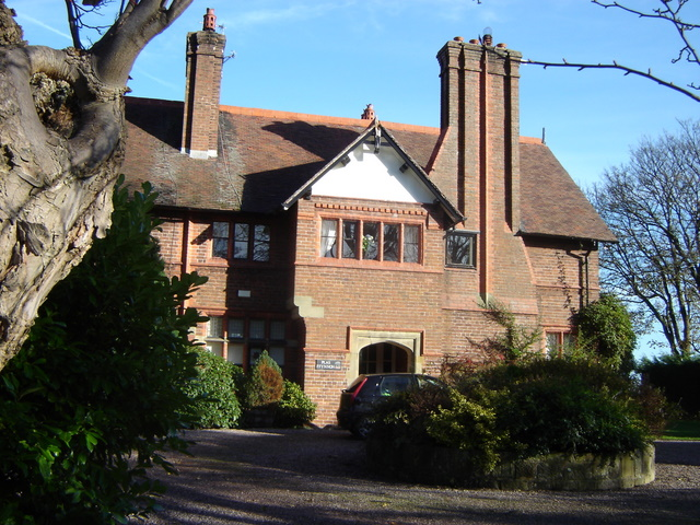 Plas Fynnon, Nercwys